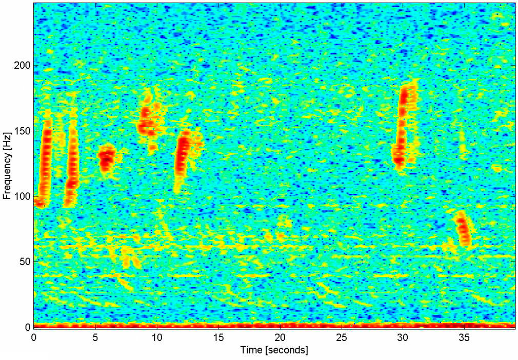 Sonogram of a North Pacific Right Whale (Eubalaena japonica) "up-call" recorded by a passive autonomous recording devices placed by the National Marine Fisheries Service on the ocean floor in the SE Bering Sea. A description of the research that produced this can be found at